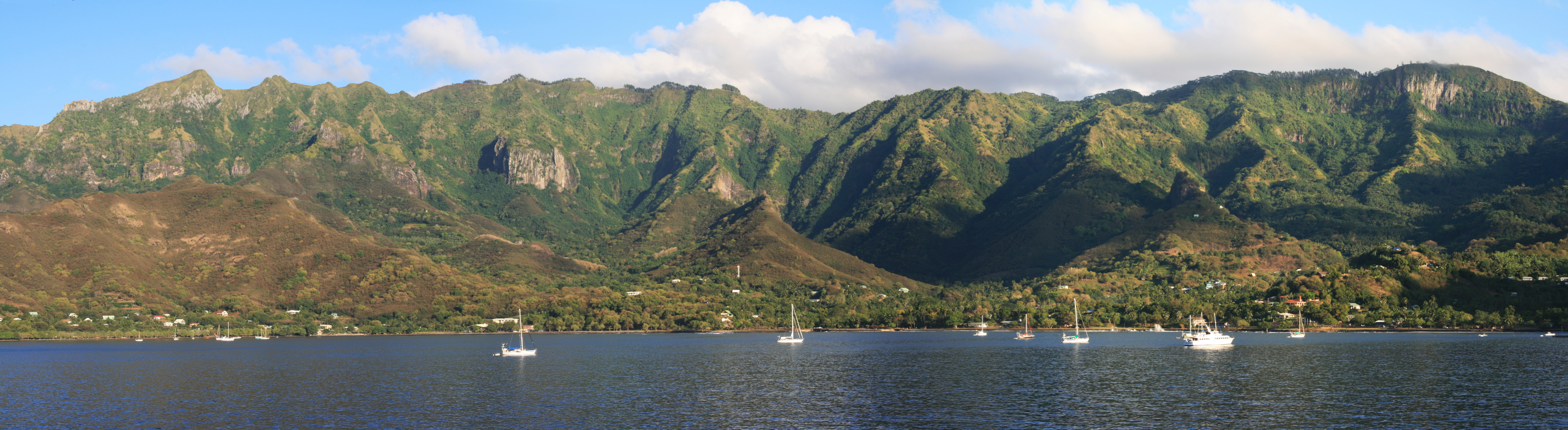 View of Taiohae bay, in Nuku-Hiva, Marquesas Island, French Polynesia.